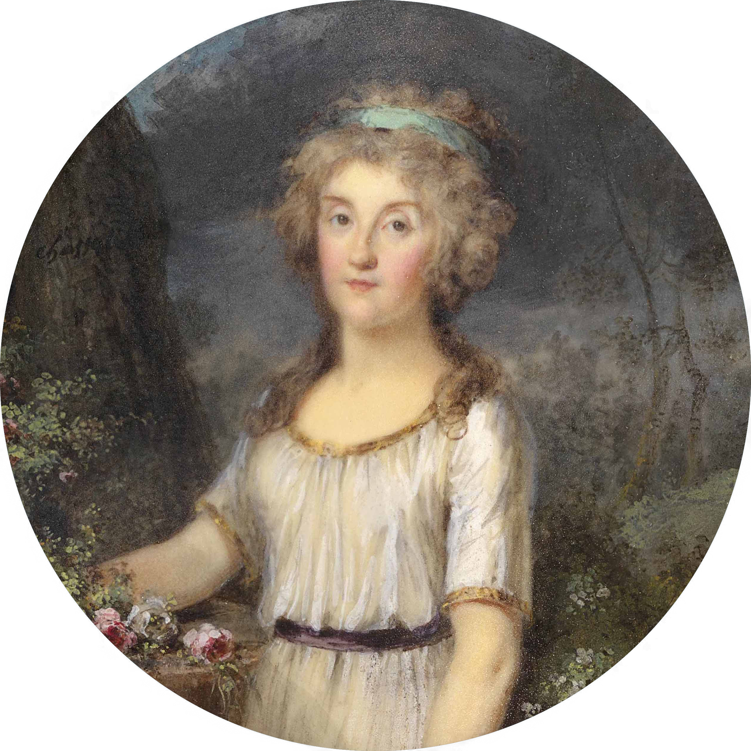 Comtesse Etienne de Durfort, née Henriette Etiennette Claude Denise de Montsauge (1761-1823) on ivory 71 mm signed t.l: chasselat